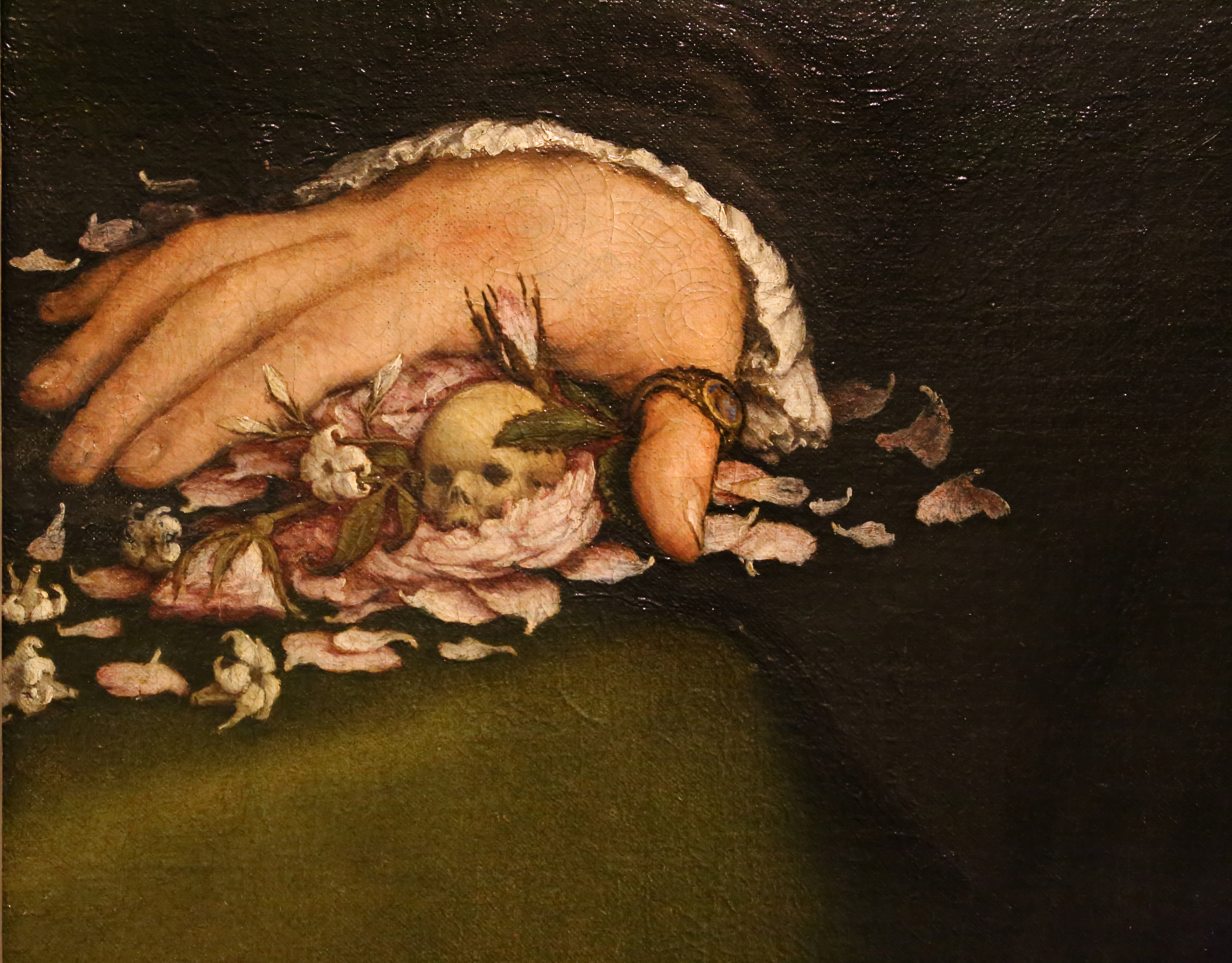 Paintings in Galleria Borghese (Rome)